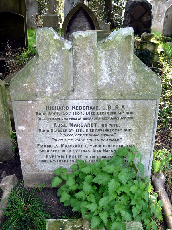 Richard Redgrave funerary monument, Brompton Cemetery, London